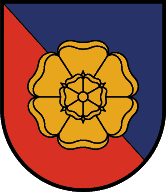 Source: "Fahnen-Gärtner GmbH, Mittersill" This file depicts a coat of arms. The composition of coats of arms are generally public domain with respect to copyright laws, and may be reproduced freely. This corresponds to the international traditional usage, and is explicitly stated in some national copyright laws. Some compositions, of more recent origin, may be copyrighted. This is not a valid license as such, being a "public domain" statement for the coat of arms definition only. It must be completed with the copyright tag associated to the picture creation. See Commons:Coats of arms for further information. Please note that this applies only to the coat of arms definition (composition / description). The representation of a coat of arms is an artistic creation, subject as such to copyright laws. Restriction of use - Legal notice: Most of the time, the usage of coats of arms is governed by legal restrictions, independent of the status of the depiction shown here. A coat of arms represents its owner. Though it can be freely represented, it cannot be appropriated, or used in such a way as to create a confusion with or a prejudice to its owner. Usage on Commons: Please provide licence information for the coat of arm representation, information for the author of the picture, and the source if not self-made work. This image is in the public domain according to Austrian copyright law because it is part of a law, ordinance or official decree issued by an Austrian federal or state authority, or because it is of predominantly official use. (§7 UrhG) To uploader: Please provide where the image was first published and who created it.